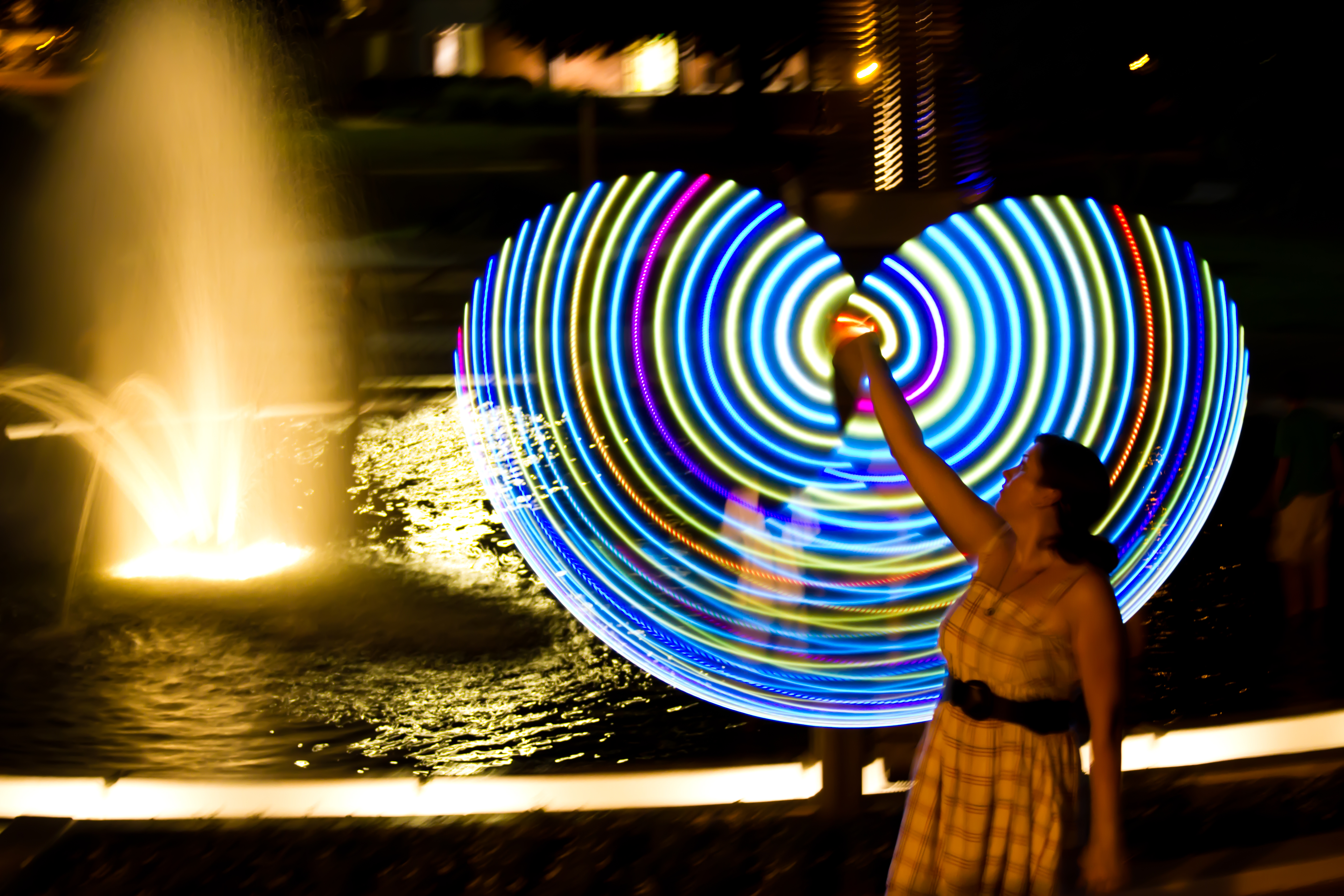 A girl twirls a light-up ring shaped baton beside the Kessler Campanile on the campus of the Georgia Institute of Technology.